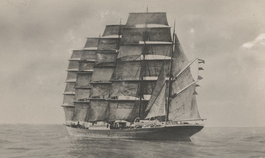 Five masted barque „Potosi“ in full Sails.